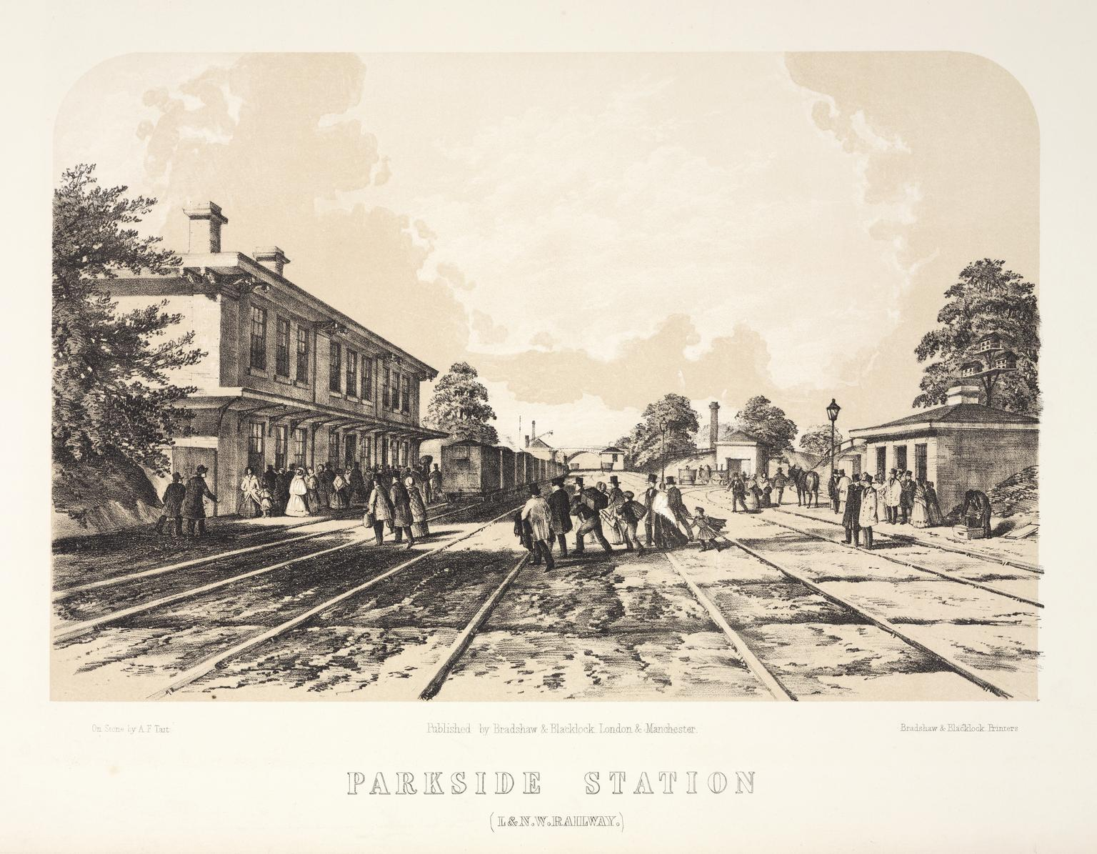 Parkside Station from Views on the London & North Western Railway - Northern Division, by Arthur Fitzwilliam Tait. - Bradshaw & Blacklock, Printers, 1848.